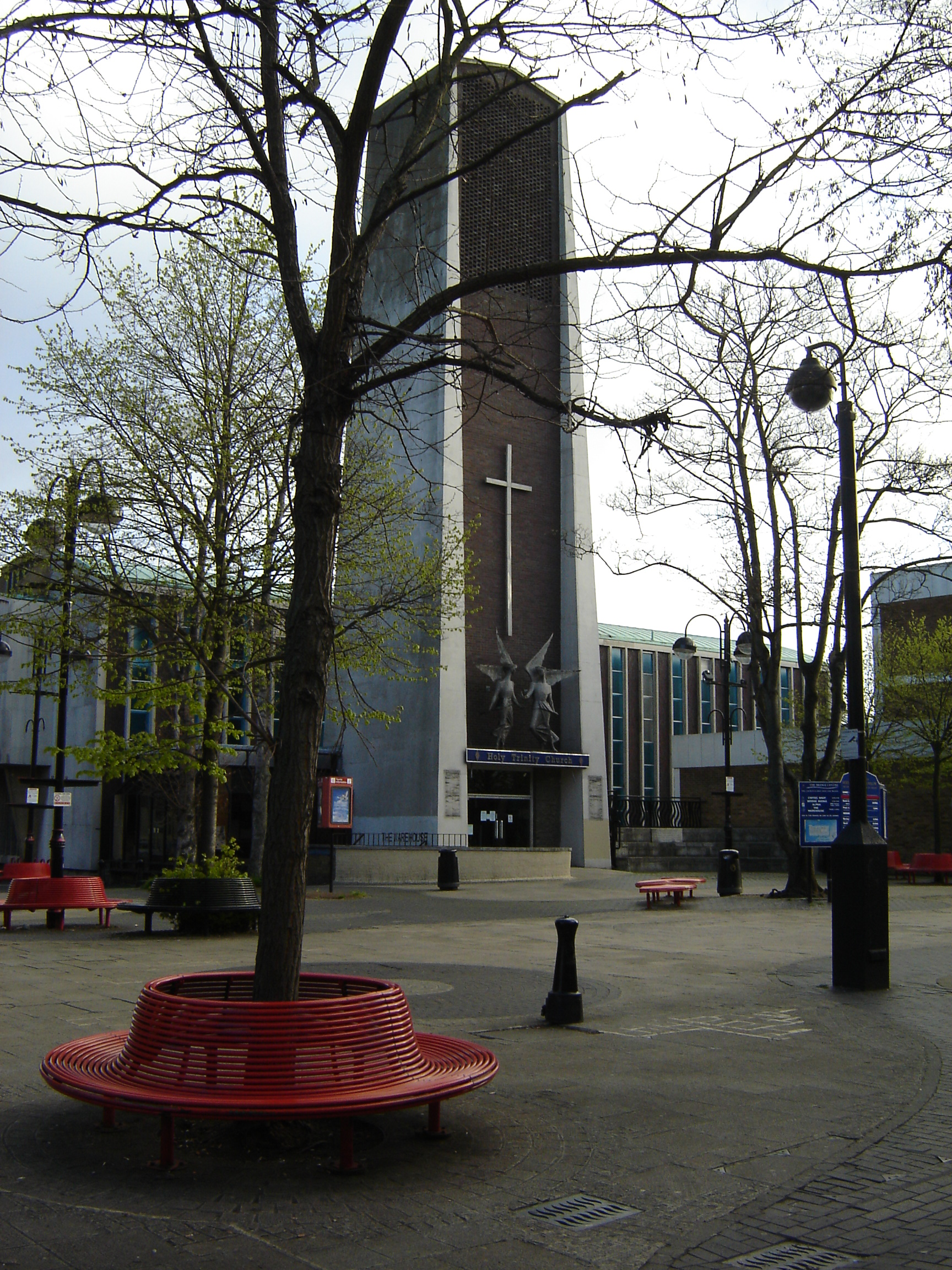 Holy Trinity parish church, High Street, Hounslow, Middlesex, seen from the southwest